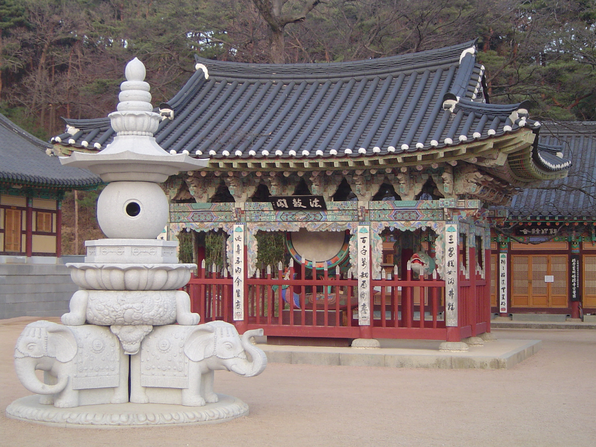 Sudeoksa Temple, Yesan, South Korea